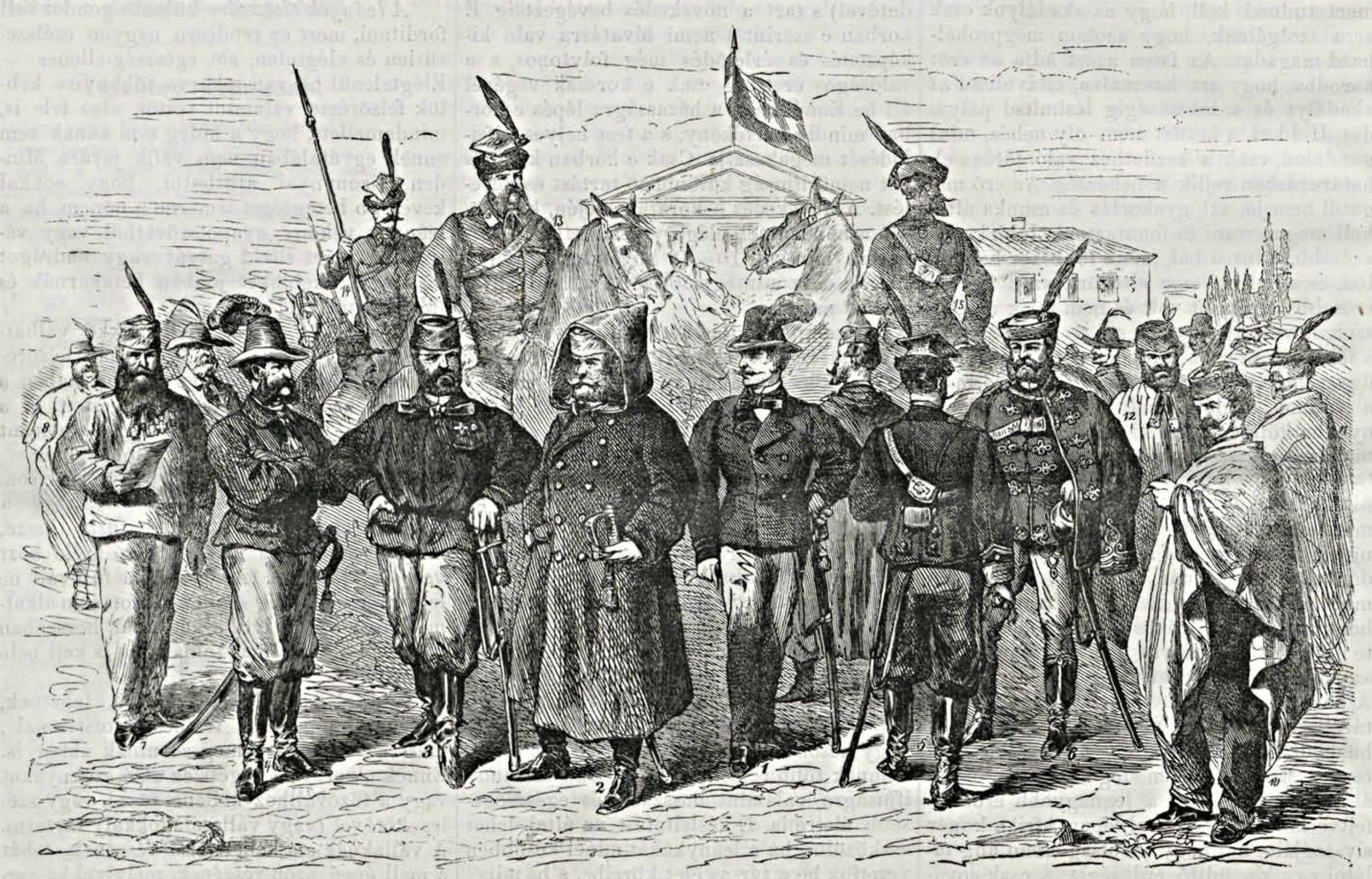 Contemporary newspaper illustration of the the Austrian Volunteer Corps before debarking to Mexico. 1864. From left:Austrian jäger in formal uniform, Austrian jäger in service uniform, Austrian pioneer, Austrian bombardier, Polish uhlan in decorated service uniform, decorated Hungarian hussar, NCOs, regulars; on horseback: Polish uhlan lieutenant, Hungarian hussar